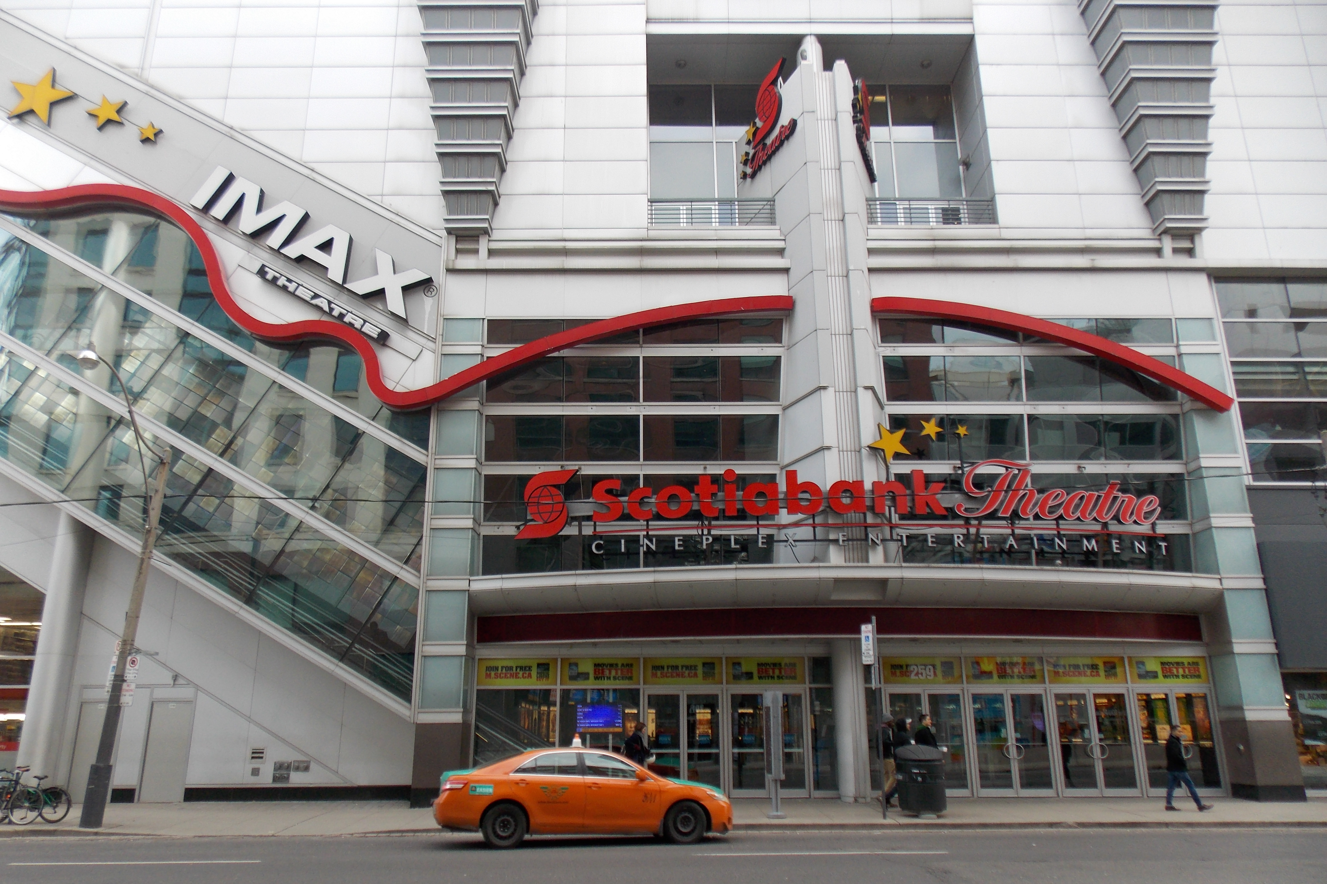 The entrance of the Scotiabank Theatre at Toronto.